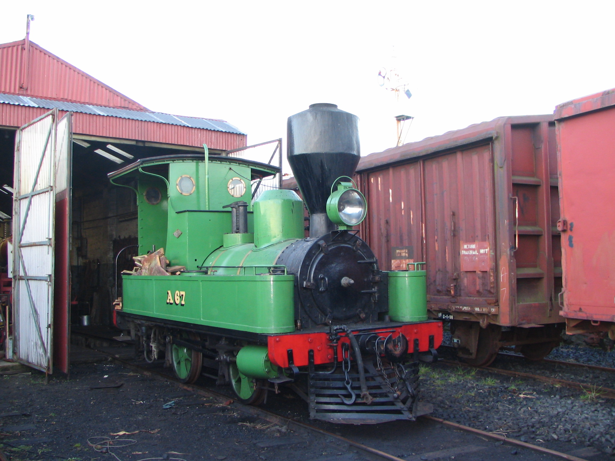 NZR A class (1873), steam locomotive A67 at Ocean Beach Railway, Dunedin New Zealand. Photo taken by myself